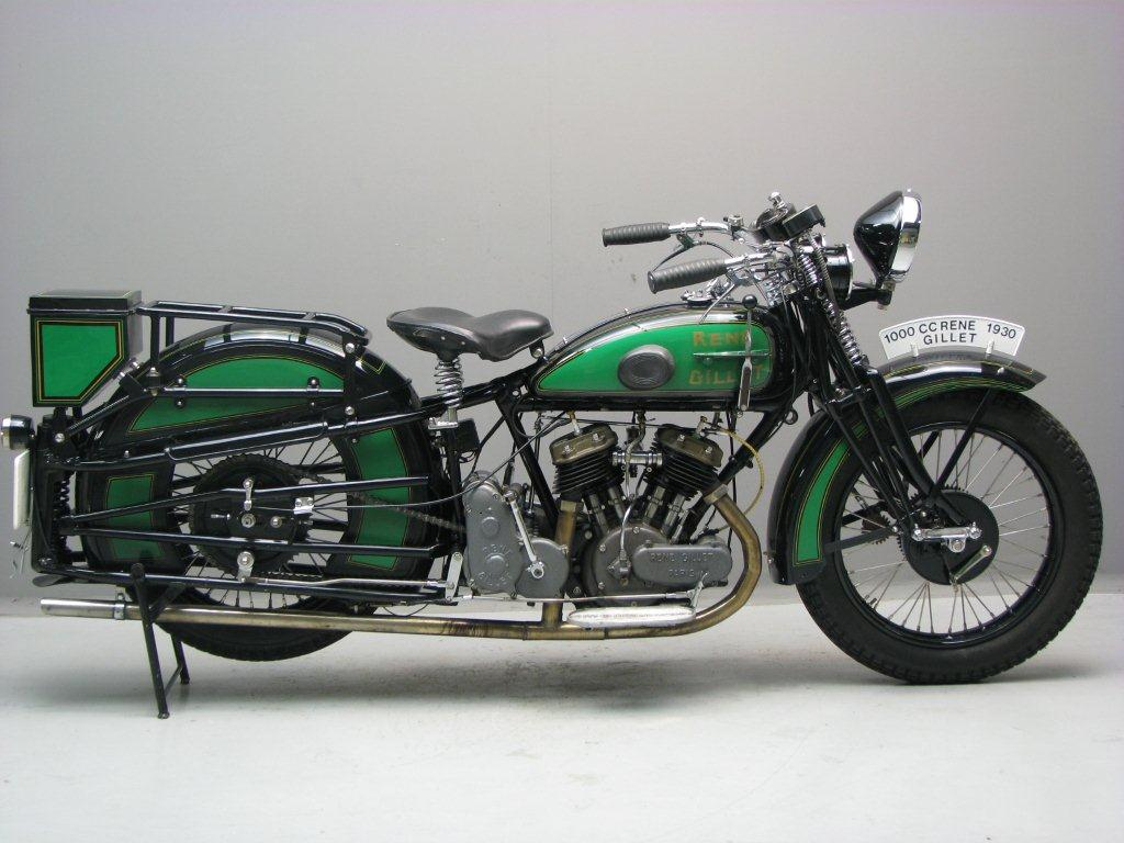 René Gillet 1000 cc V-twin motorcycle from 1930